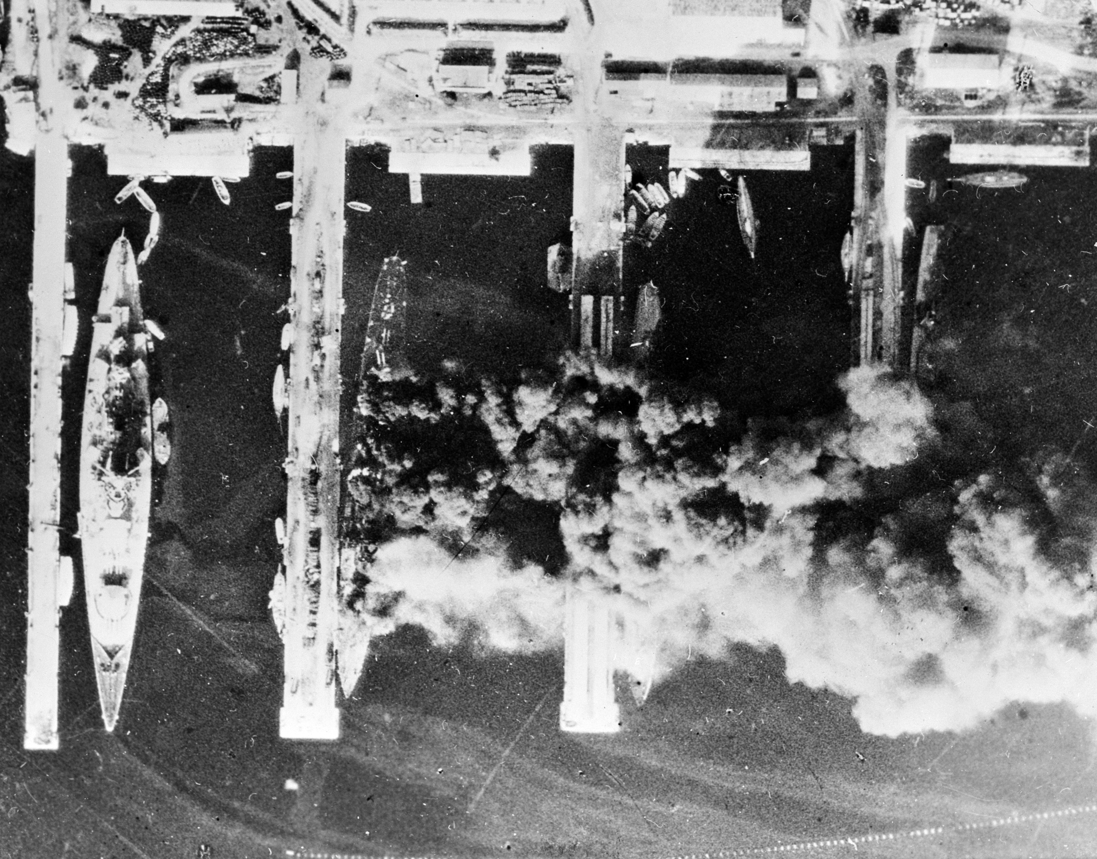 The scuttled French fleet at Toulon: aerial pictures. On 28 November 1942, the day after the scuttling and firing of the ships of the French fleet in Toulon harbour, photographs were taken by the Royal Air Force. Many of the vessels were still burning so that smoke and shadows obscure part of the scene. But the photographs show, besides the burning cruisers, ship after ship of the contre-torpilleurs and destroyer classes lying capsized or sunk, testifying to the thoroughness with which the French seamen carried out their bitter task. While the vast damage done is shown in these photographs, no exact list of the state of the ships can be drawn up, since the ships themselves cannot be seen in an aerial photograph. Thus the upper deck of the battle cruiser Strasbourg is not submerged, but here are signs that the vessel has settled and is grounded. The key plan C.3296 shows the whereabouts of the majority of the ships and their condition as far as it can be seen from the photographs. Picture shows: damaged and sunk light cruisers and destroyers visible through the shadow and the smoke caused by the burning cruisers. left is the Strasbourg (bridge above the water but clearly sunk) next to her, burning, is the Colbert under the smoke, the Algérie to the right, the Marseillaise.[1]